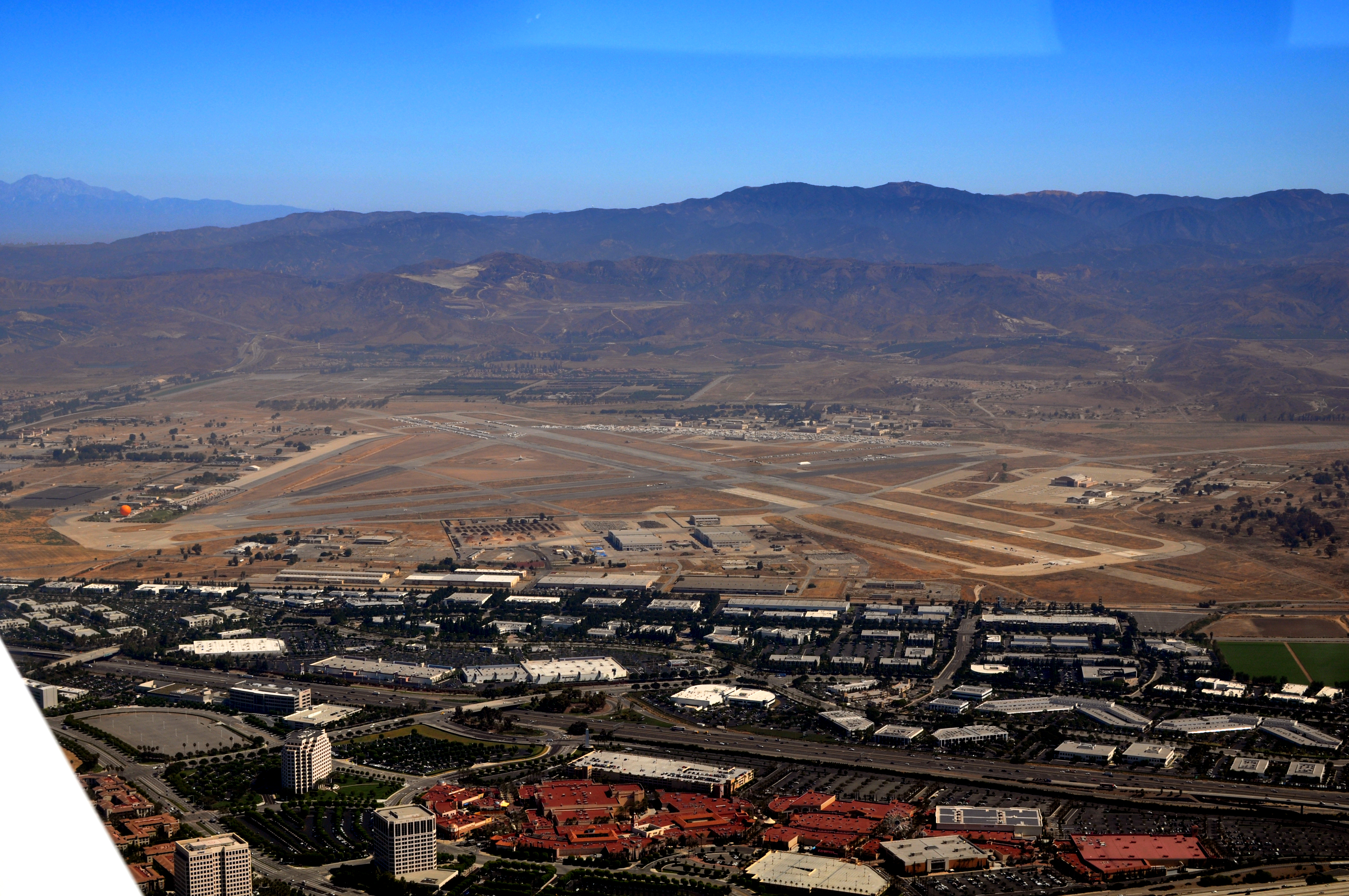 El Toro Marine base 2011 Photo D Ramey Logan please publish photographer credits if used outside of Wikipedia